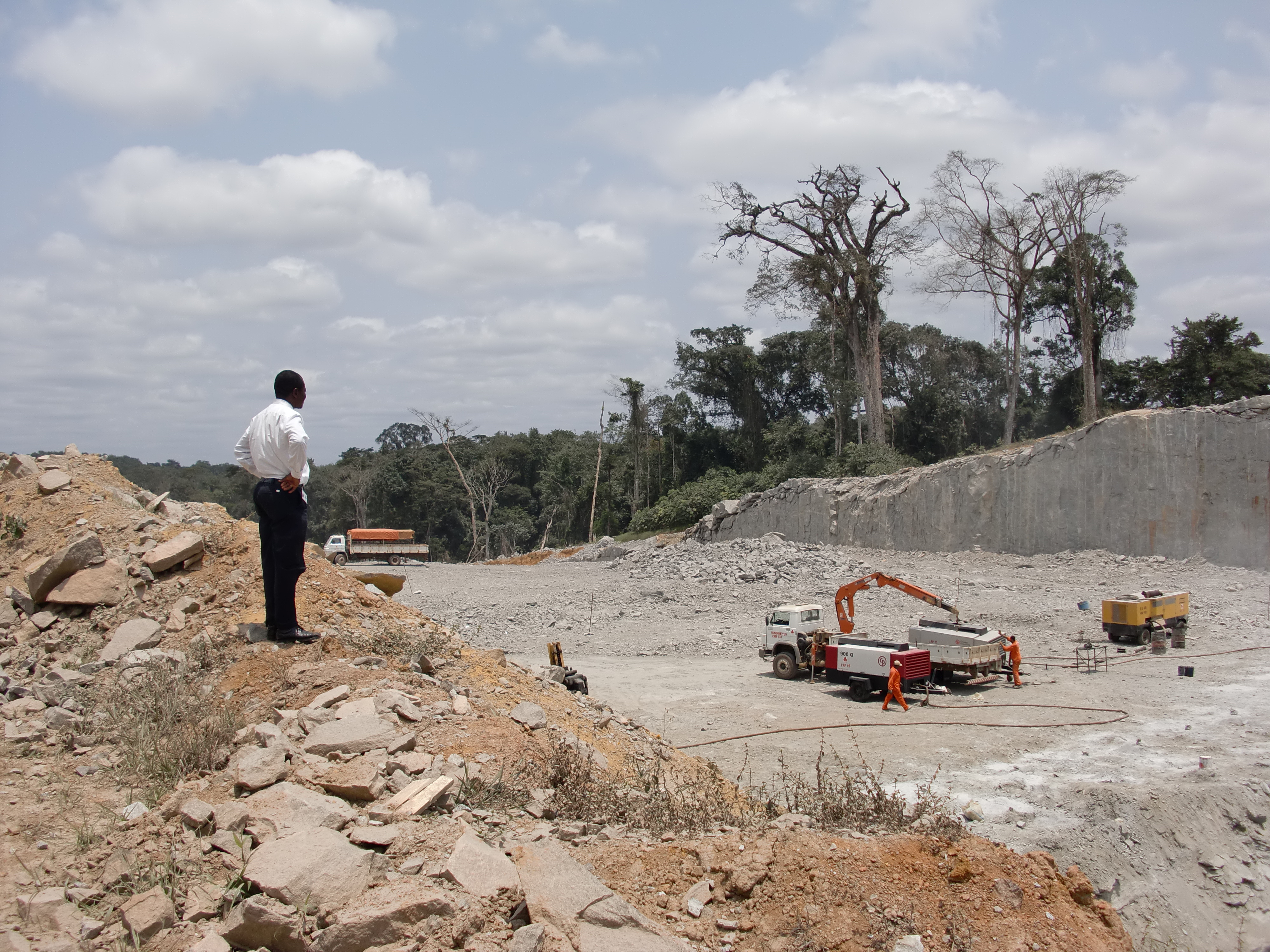 Highway construction site in Oyala, Equatorial Guinea